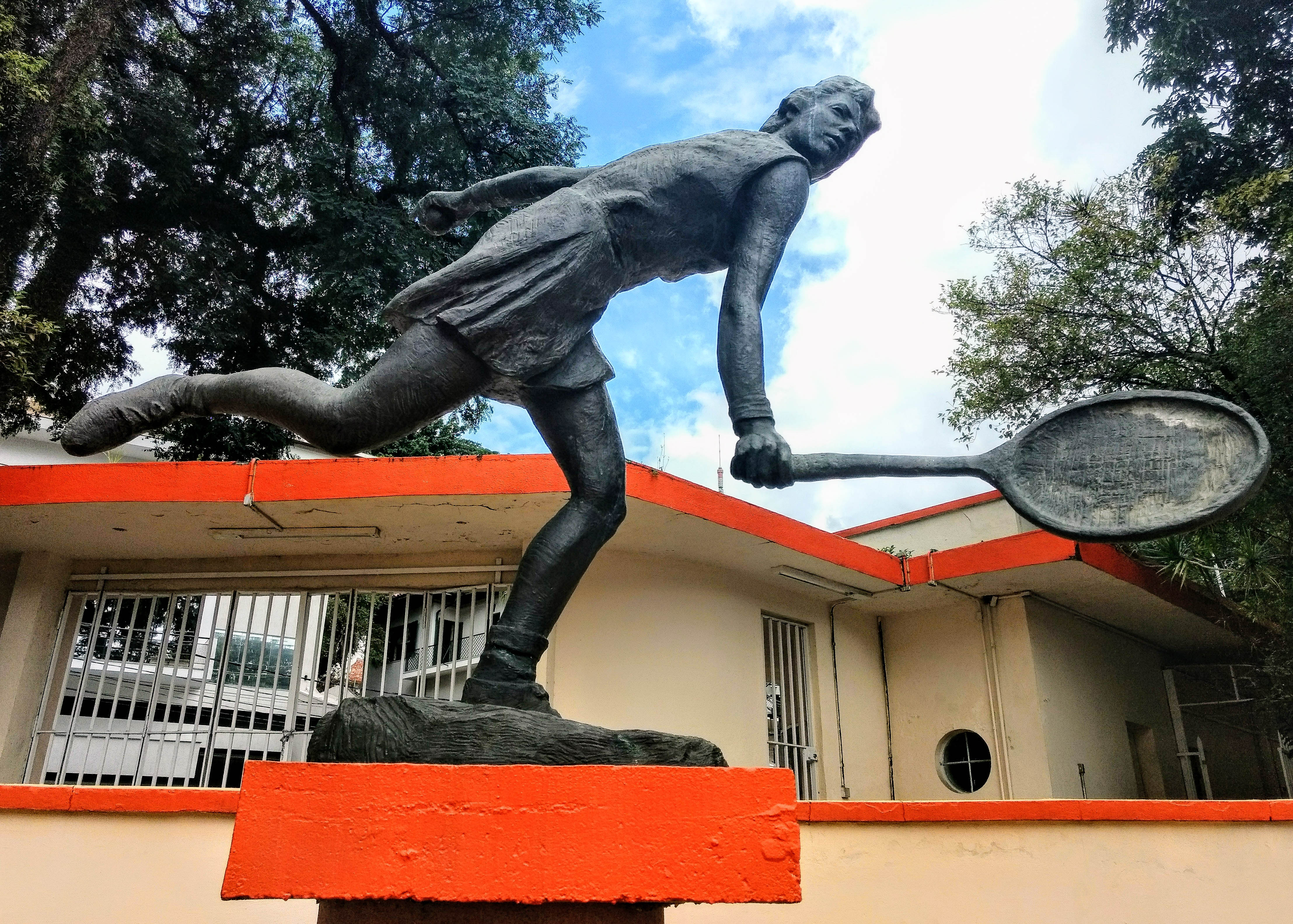 Lateral view of statue of Maria Esther Bueno, in São Paulo, Brazil.